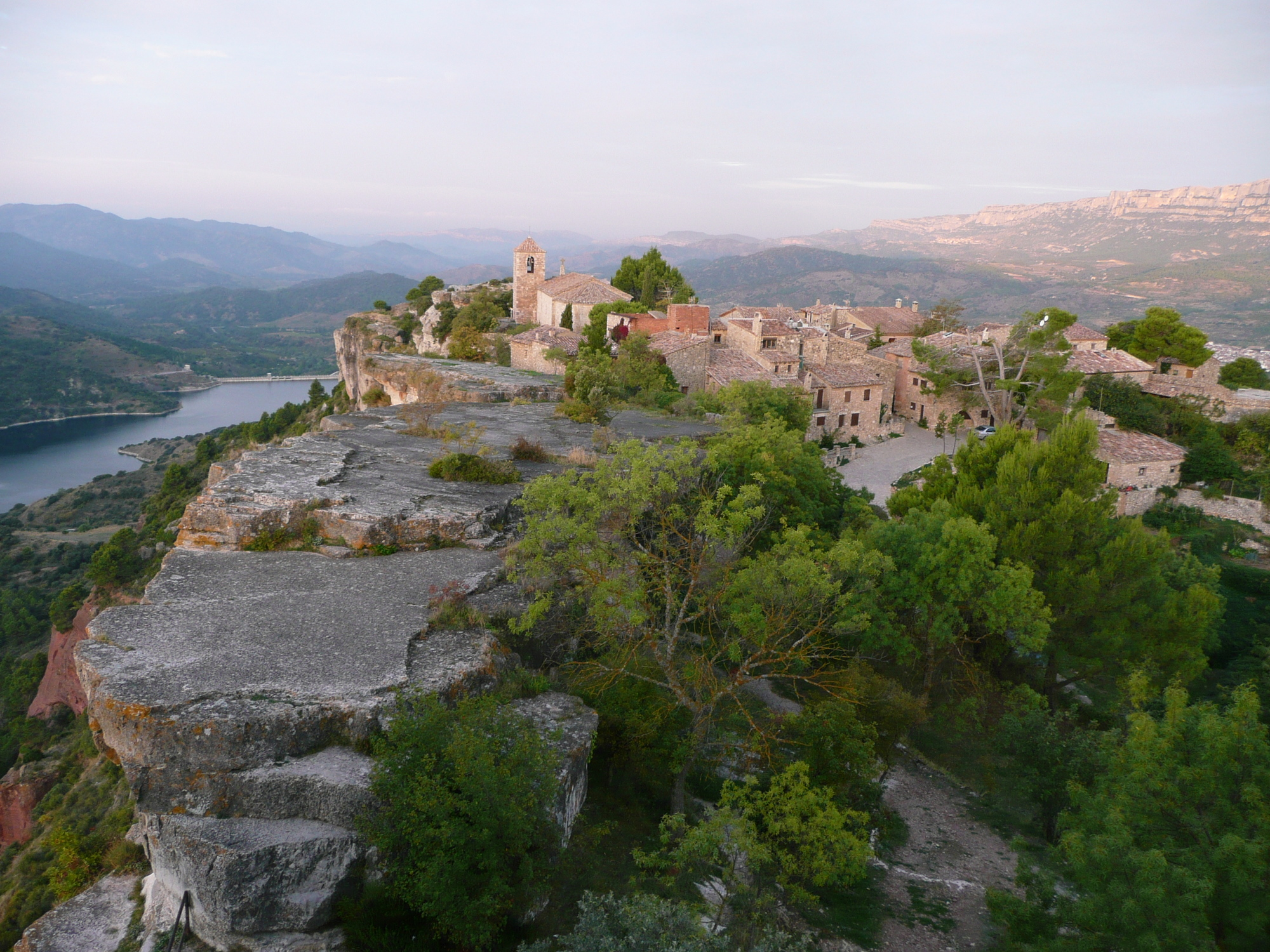 View of Siurana, Province de Tarragone, Spain